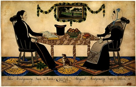 John and Abigail Montgomery 1836 pen and black ink and watercolor across bottom: John Montgomery. Aged 56 march 6th / Abigail Montgomery. Aged 52 Septemr 26th; lower center: PAINTED AT / STRAFFORD / RIDGE. MAY 22 / -1836- sight size: 22.2 x 35.3 cm (8 3/4 x 13 7/8 in.) Gift of Edgar William and Bernice Chrysler Garbisch